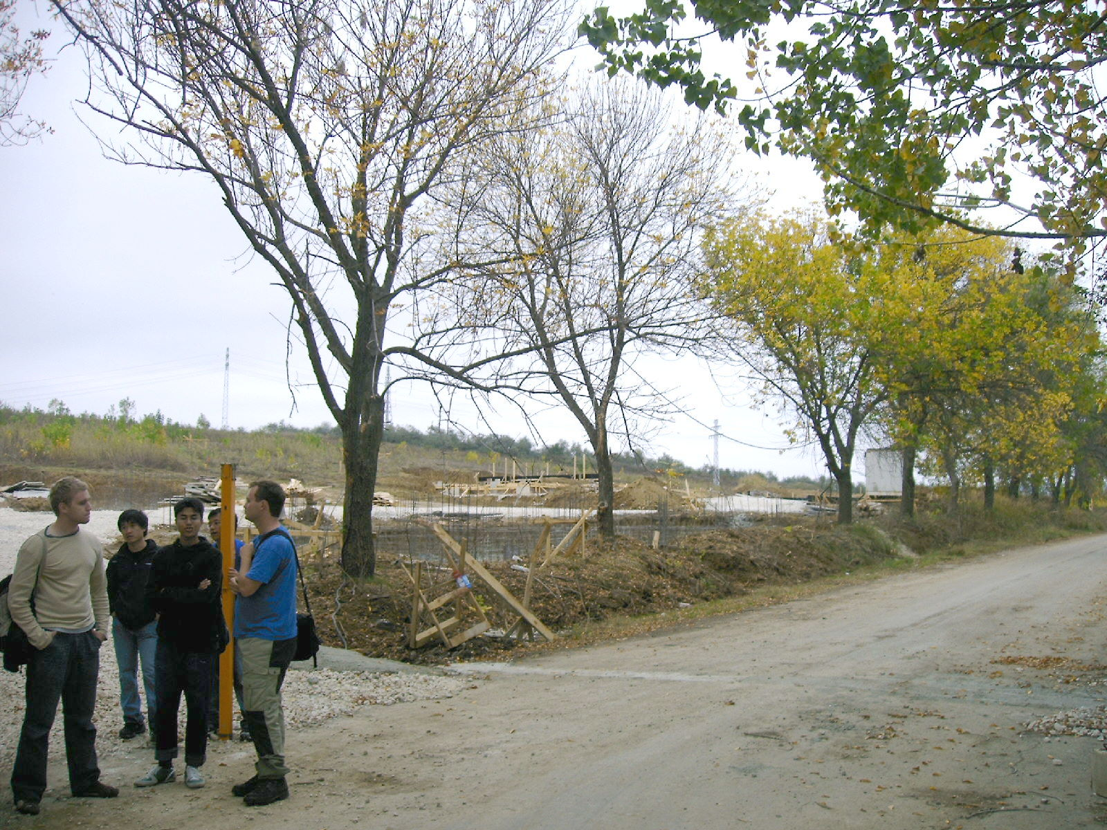 Byala, Bulgaria. Villa under construction (2006), The construction did not went much further than this point, because of fraud by the Bulgarian developers.